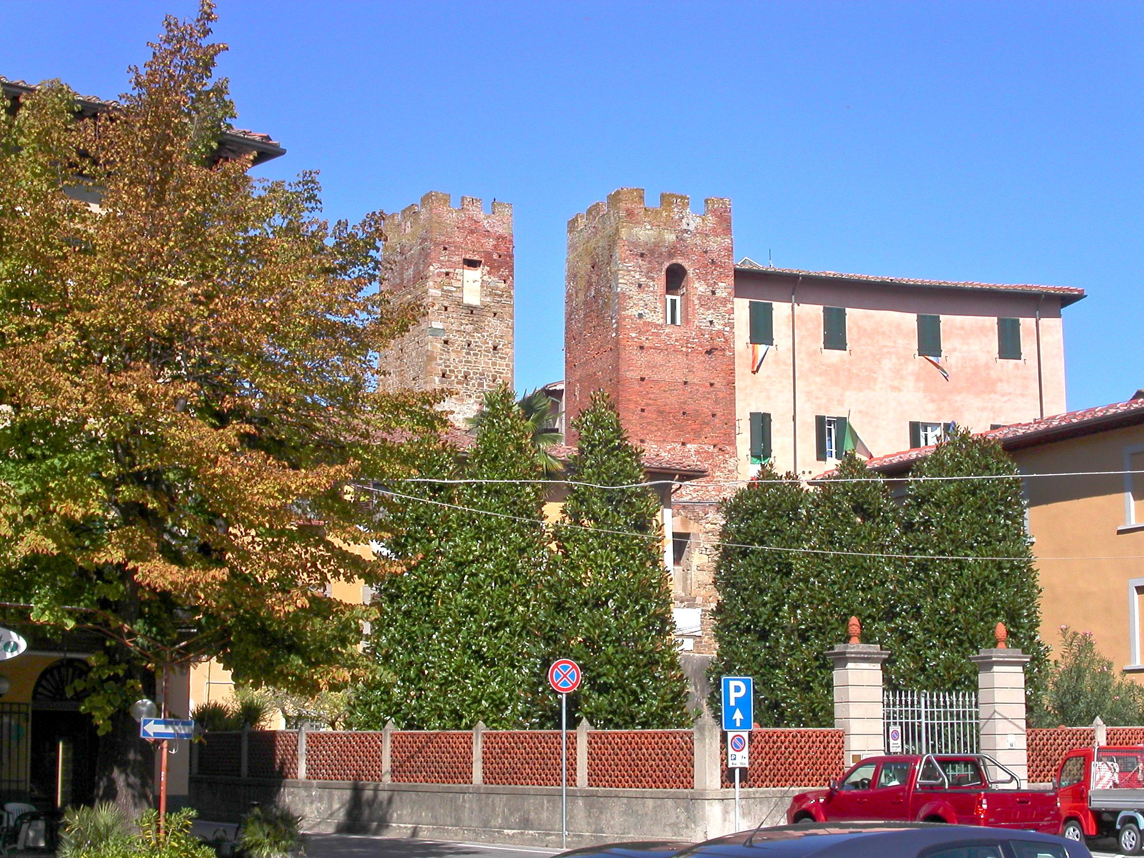 Vicopisano, Italy, Tuscany, Twin Towers